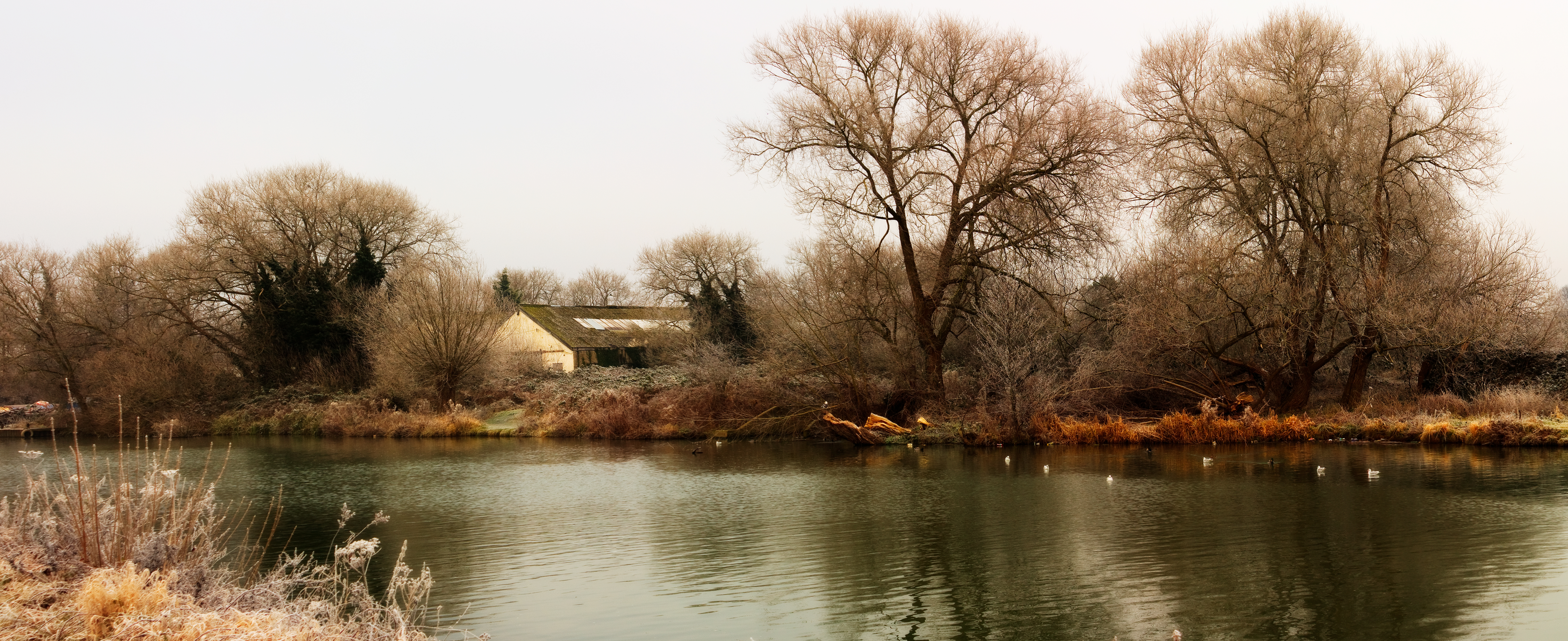 Isis River